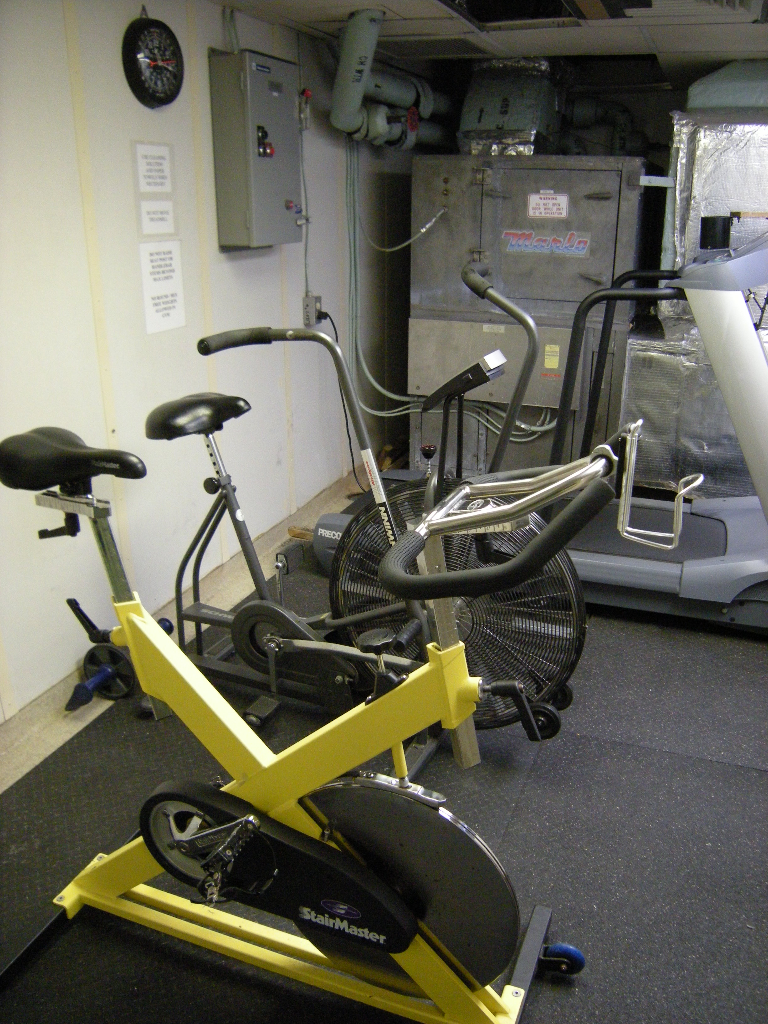 Gym of the research vessel RV Thomas G. Thompson, photographed at its dock at the University of Washington, Seattle, Washington, USA.